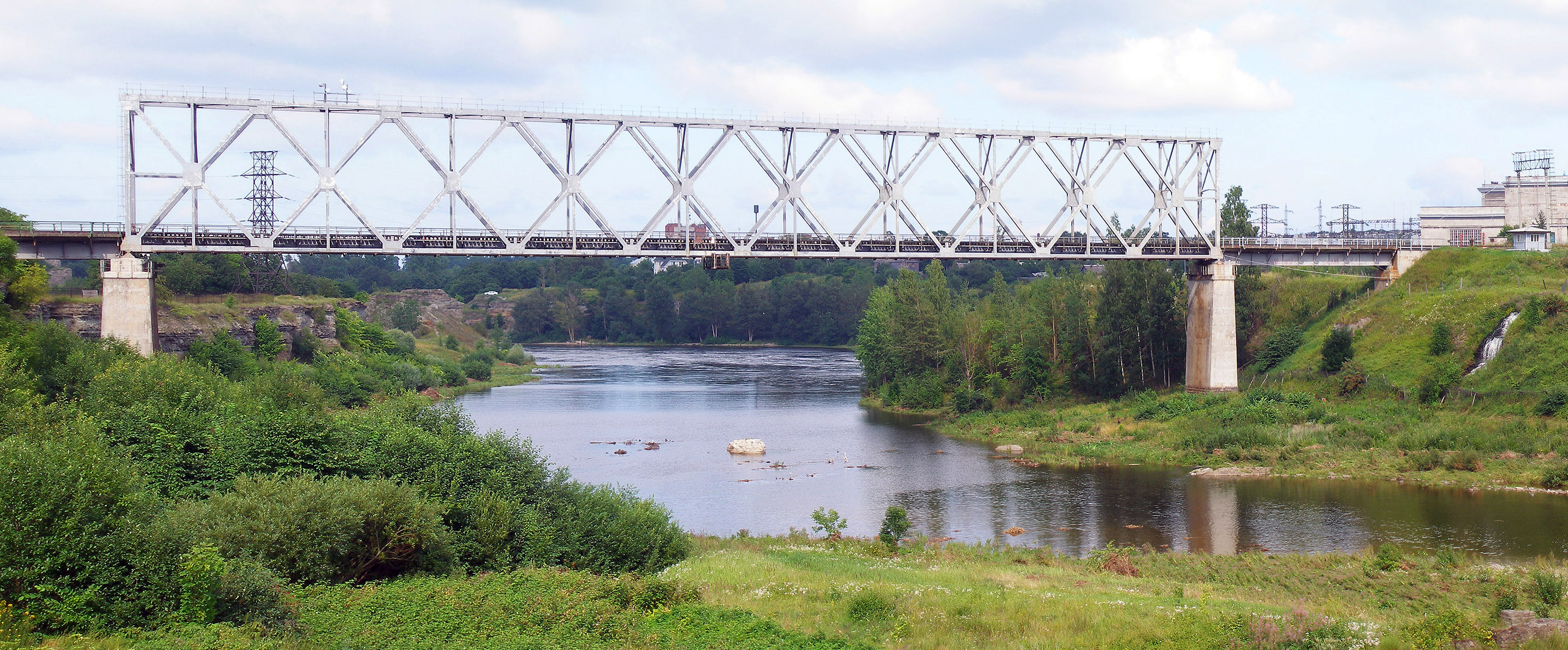 The railway bridge between the cities of Narva and Ivangorod over the Narva River, Estonian-Russian border.